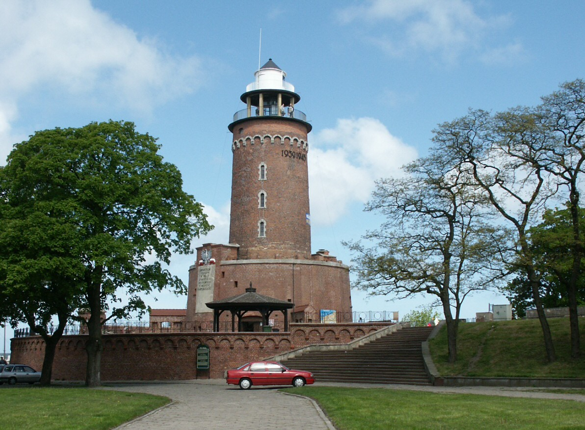 A lighthouse in Kołobrzeg (Kolberg), Poland